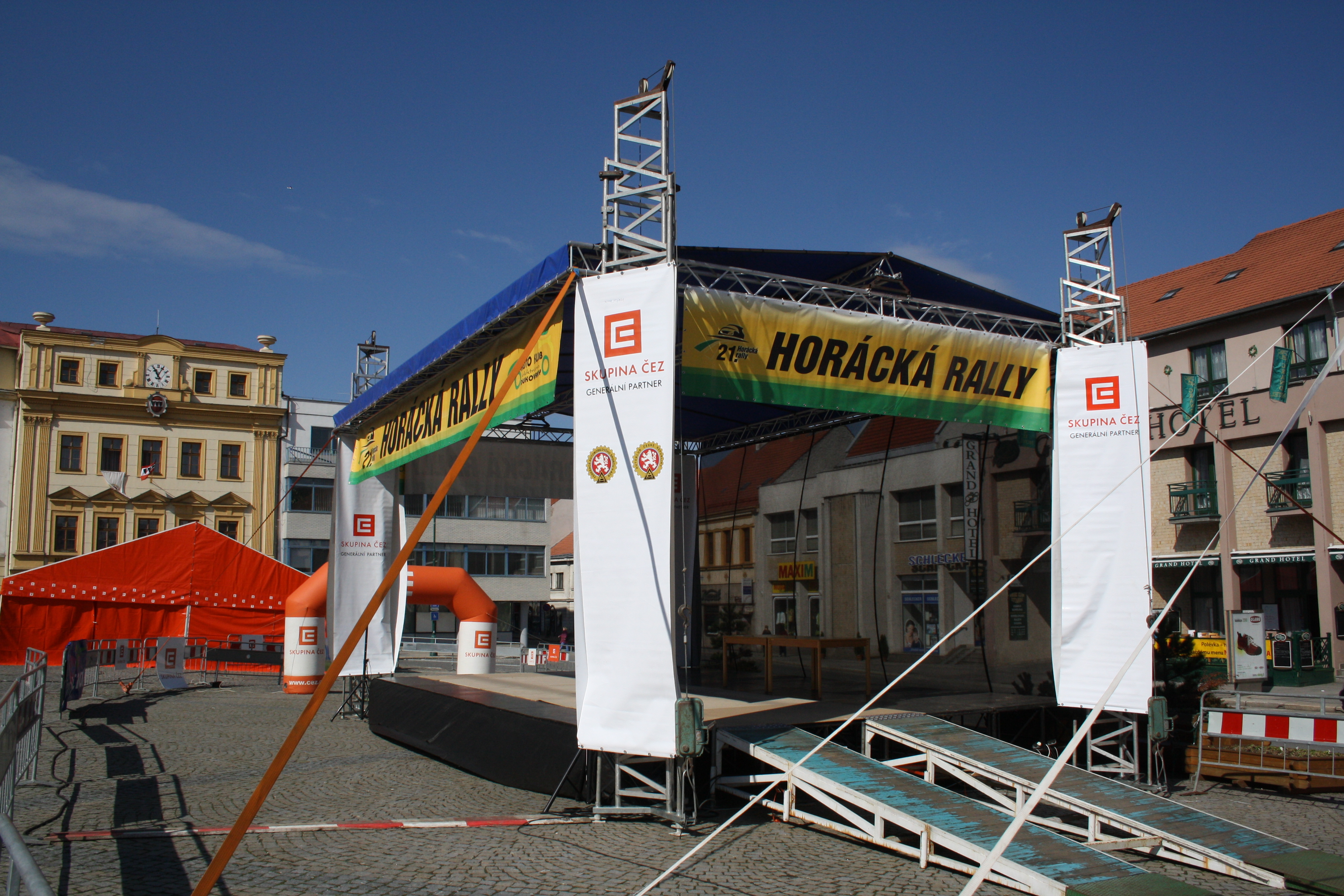 Horácka rally 2010 start point.